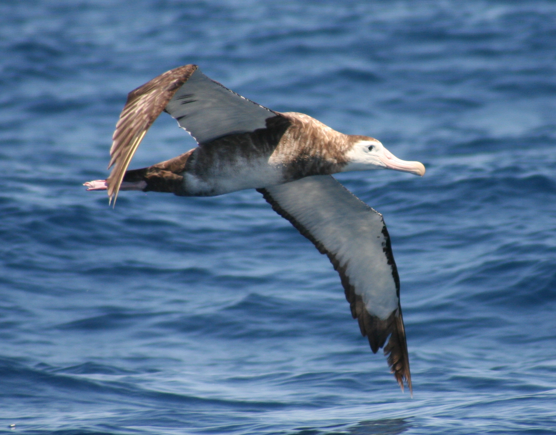 Gibson's Albatross (Diomedea antipodensis gibsoni). Subspecies of Antipodean Albatross, considered by some to be same species as Wandering Albatross. Photo taken at Sydney, Australia.